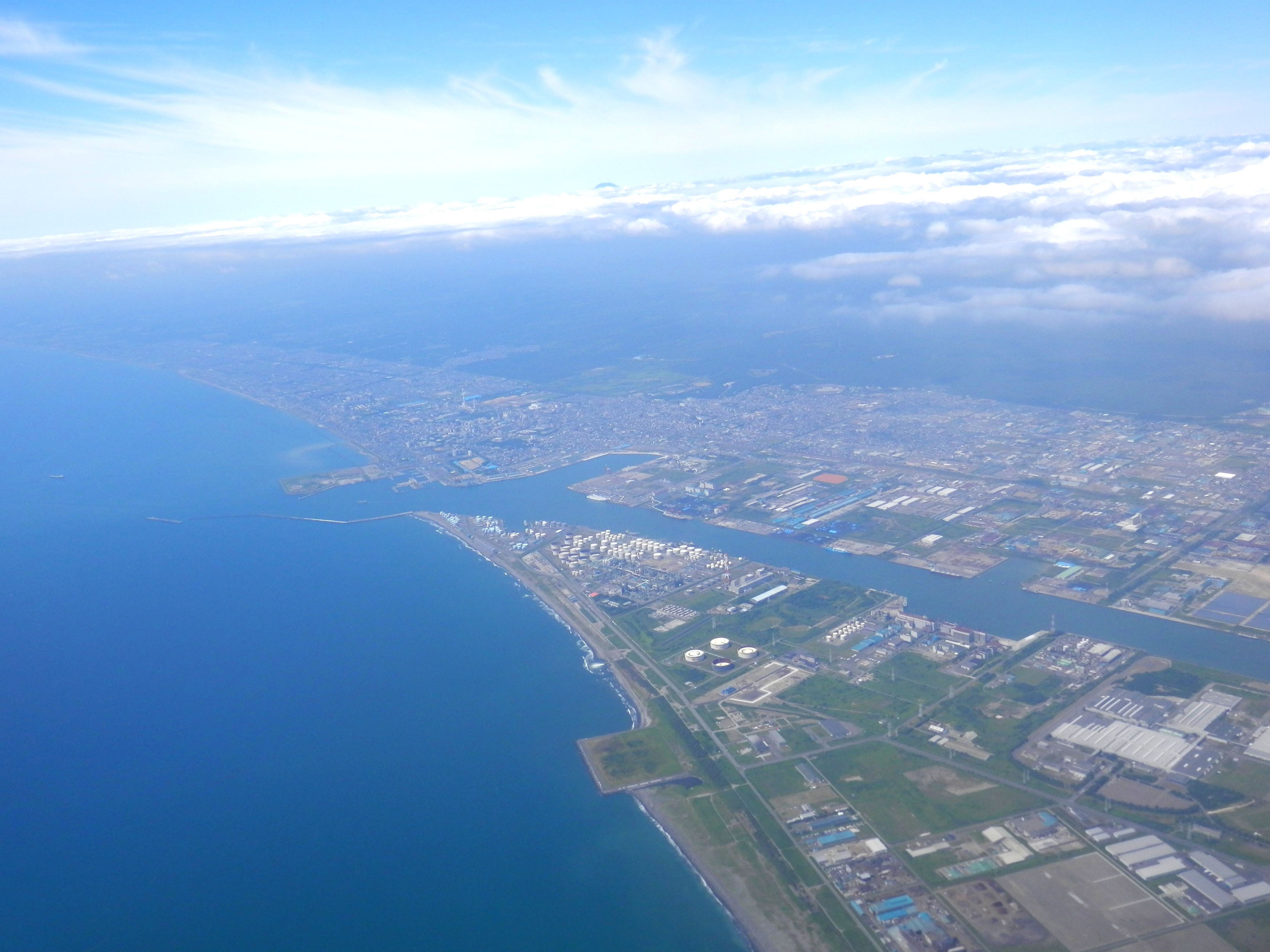 A view of Port of Tomakomai from an aeroplane